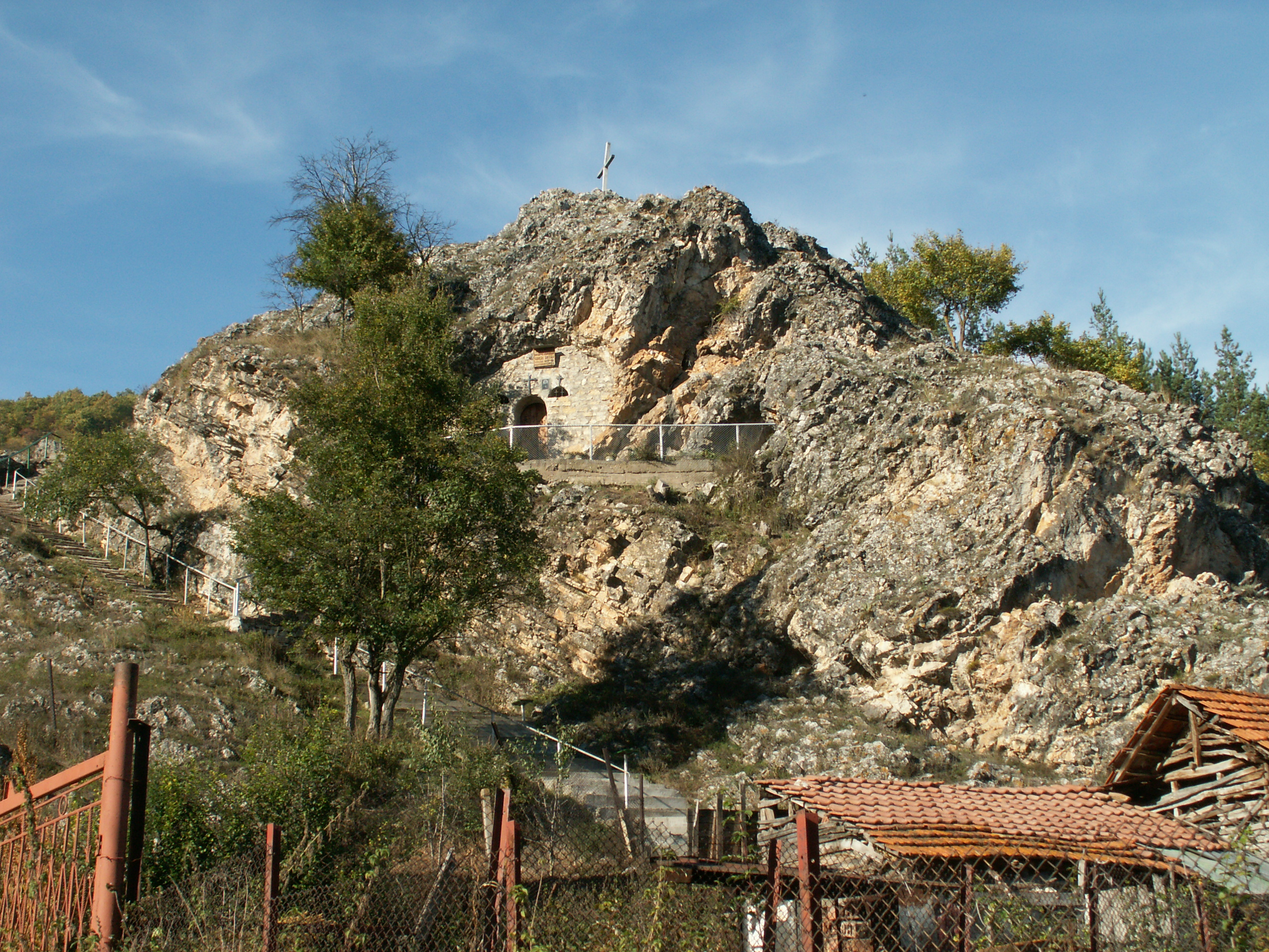 Saint Petka Chapel near Tran, Bulgaria.